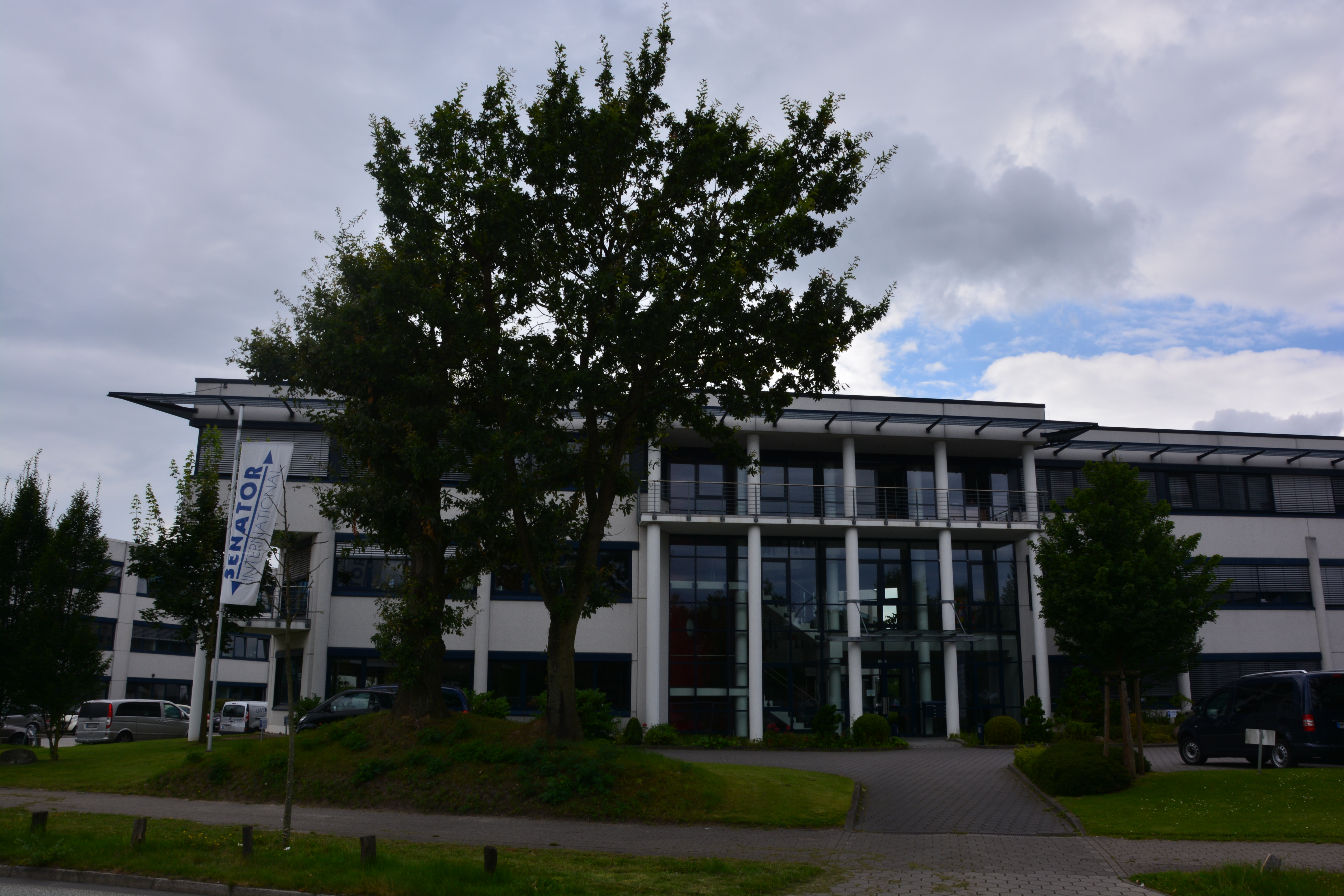 Headquarter of SENATOR INTERNATIONAL Spedition GmbH, Obenhauptstrasse 13, 22335 Hamburg, Germany